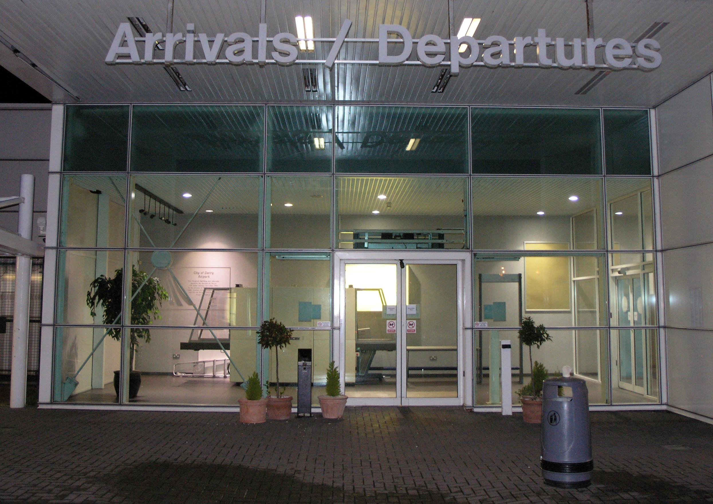 City of Derry Airport Entrance, Oct 2005. Taken by me, SeanMack.